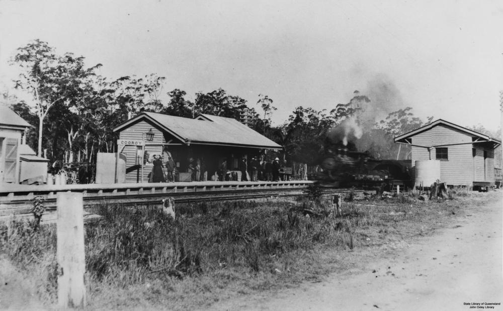 Railway Station at Cooroy, Queensland, 1911. Steam train arriving at the Cooroy Railway Station. Scene of the railway buildings and passengers waiting on the platform at the Cooroy Station. Cooroy is 80.75 miles from Brisbane, Queensland, with the north coast section of the line from Yandina to Cooroy being 11.45 miles and opened on the 17 July, 1891. [Description supplied with the photograph.].